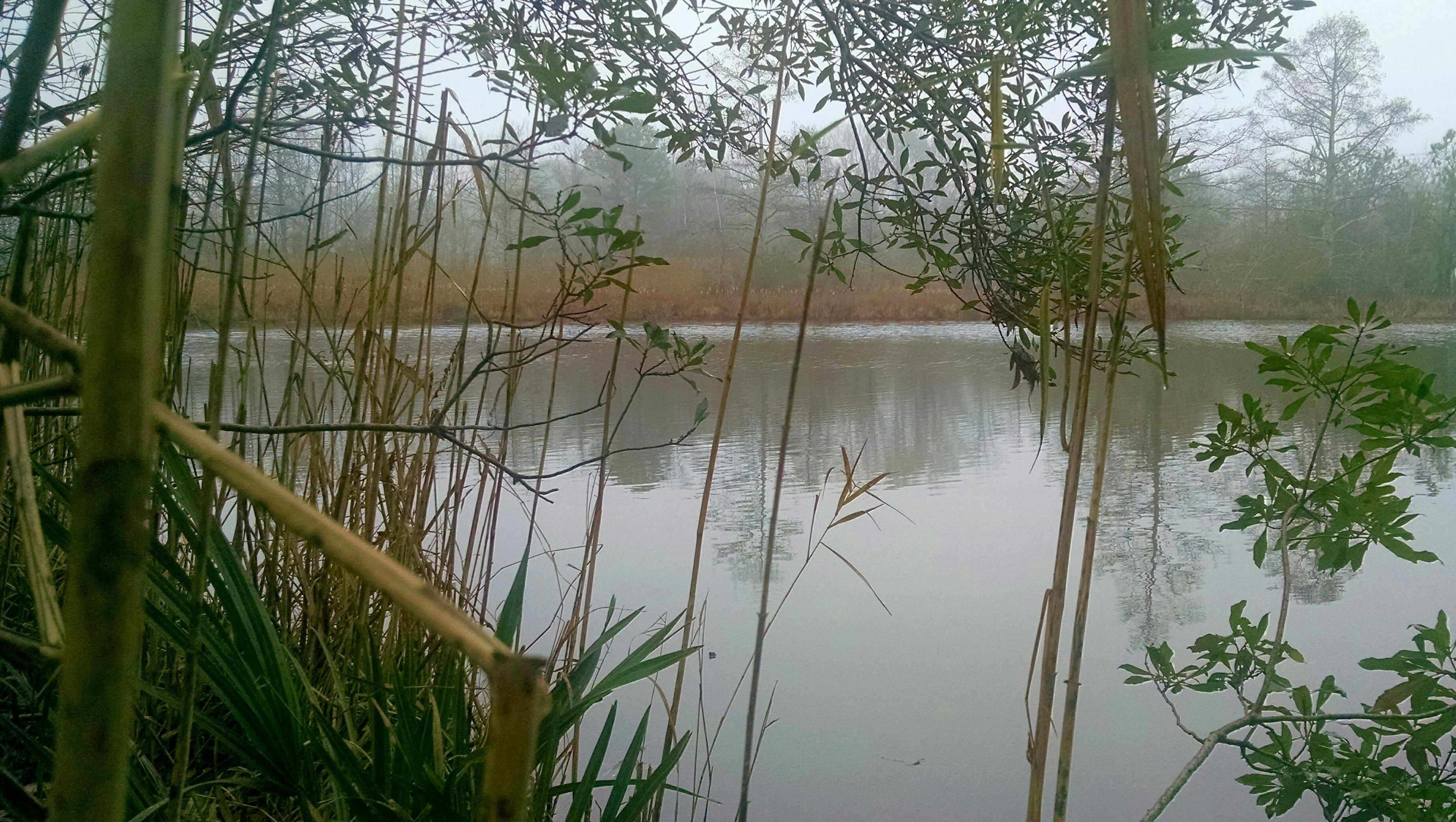 Asheville Bridge Creek on a foggy winter morning.